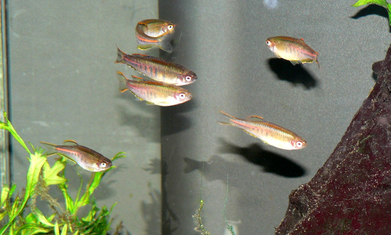 School of Danio choprai in an aquarium.